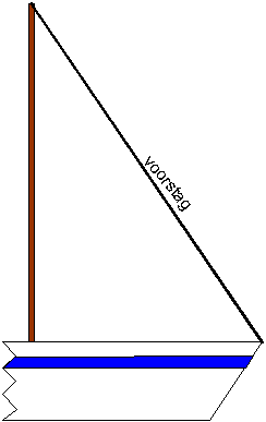 Forestay